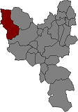 Location of Sant Martí de Llémena in Gironès